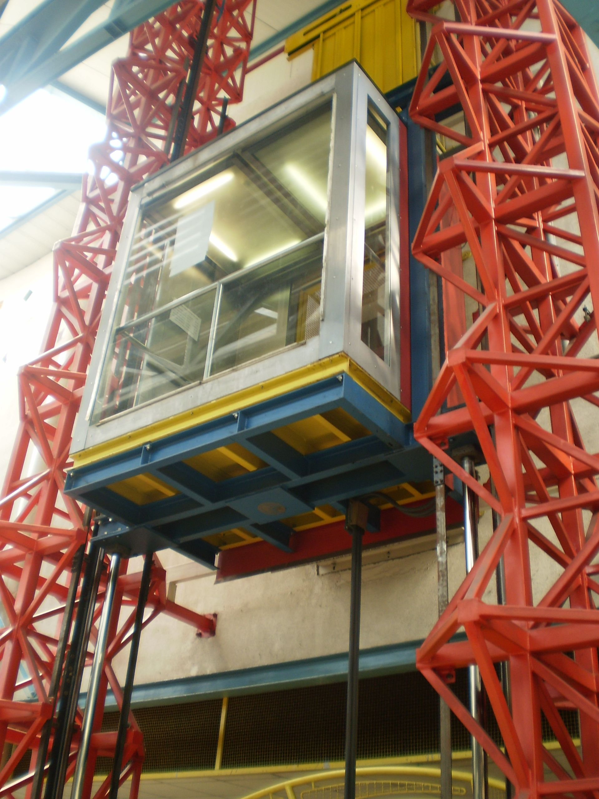 Hydraulic eleveator in the Lehel market, Budapest, Hungary